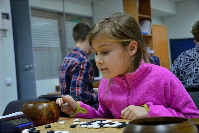 Go competition between schoolchilds under umbrella of PetrSU.